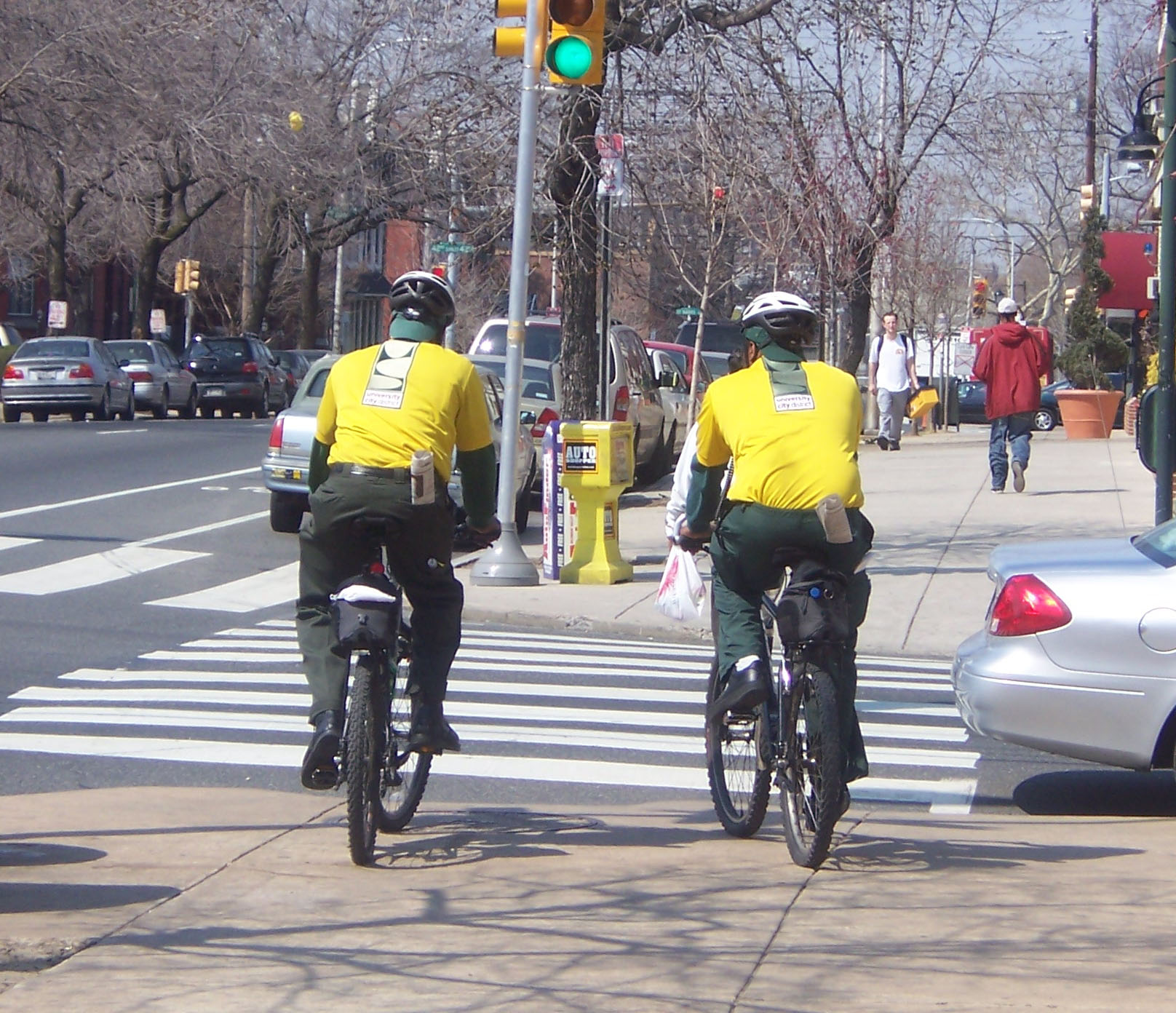 Two University City District bike patrol members